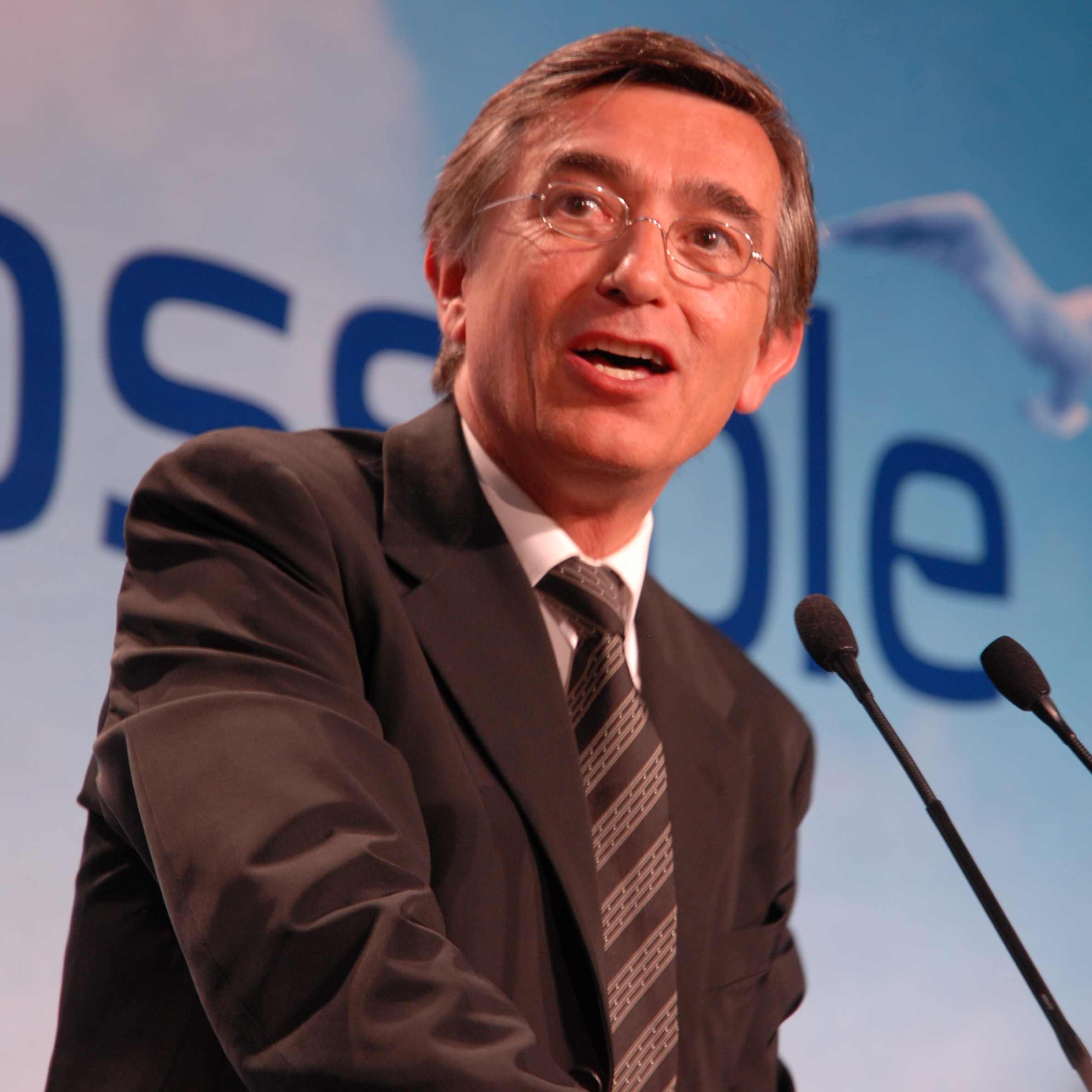 Philippe Douste-Blazy during Nicolas Sarkozy's meeting in Toulouse on April, 12th 2007 for the 2007 presidential election.